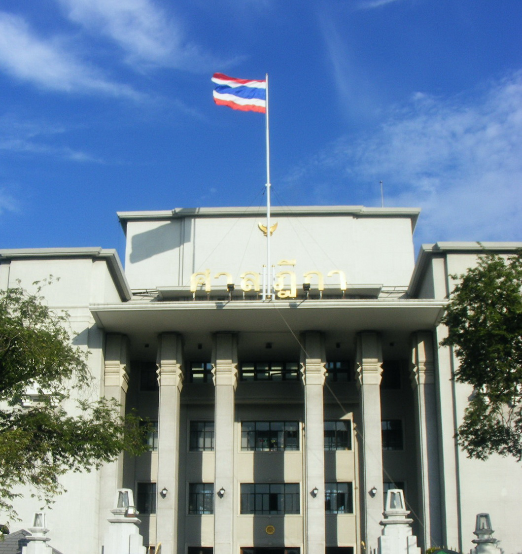 Supreme court of Thailand Location: Bangkok, Thailand.